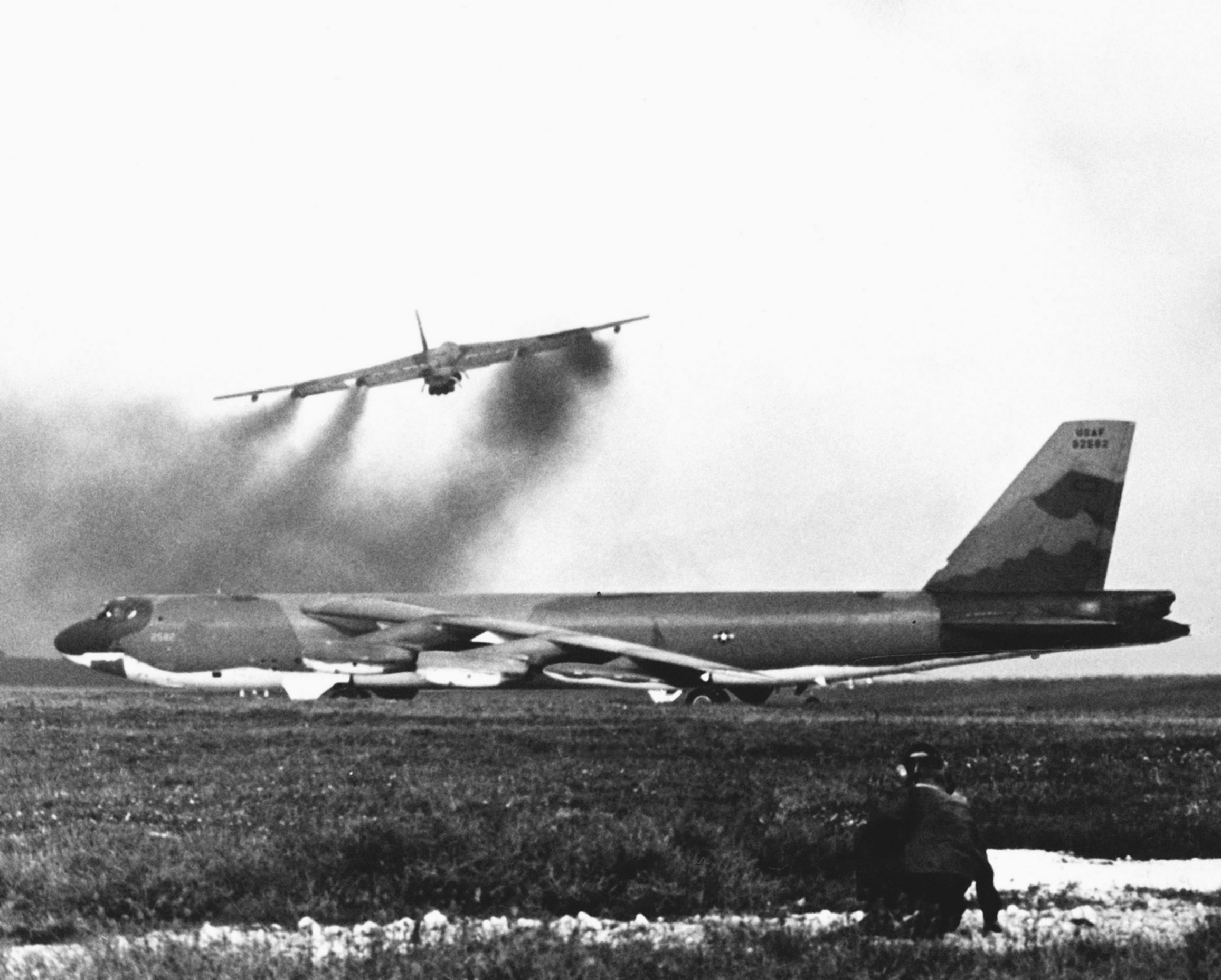 A U.S. Air Force Boeing B-52G-125-BW Stratofortress (s/n 59-2582) from the 72nd Strategic Wing (Provisional) waits beside the runway at Andersen Air Force Base, Guam (USA), as another B-52 takes off for a bombing mission over North Vietnam during Operation Linebacker II on 15 December 1972. Note the exhaust from the eight J57 engines.